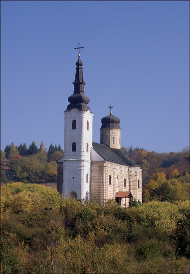 Sisatovac_orthodx_church